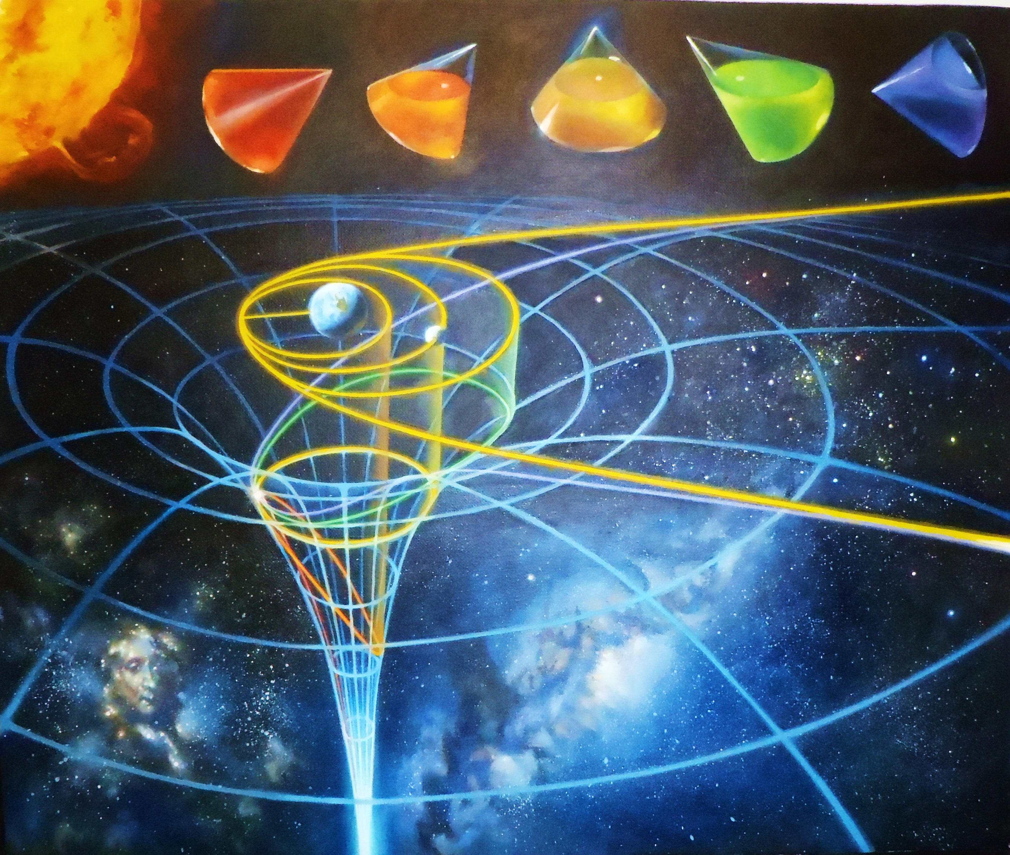 Conic sections describe the possible orbits of small objects around the earth. A projection of these orbits (yellow) onto the gravitational potential (blue) of the earth makes it possible to determine the orbital energy at each point in space. Isaac Newton, who proved that orbits were conic sections, is shown next to the milky way galaxy. The spectral colors symbolize different energy values, in analogy to the frequencies of light. (Oil painting by Sascha Grusche)